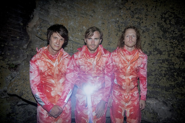 Art vs Science Create / Destroy EP 2014